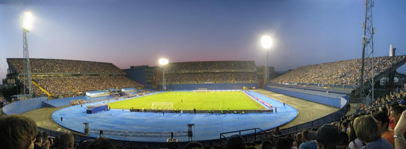 Maksimir Stadium, Zagreb, Croatia, during the game GNK Dinamo Zagreb vs. Neftchi Baku PFC (13/07/2011)